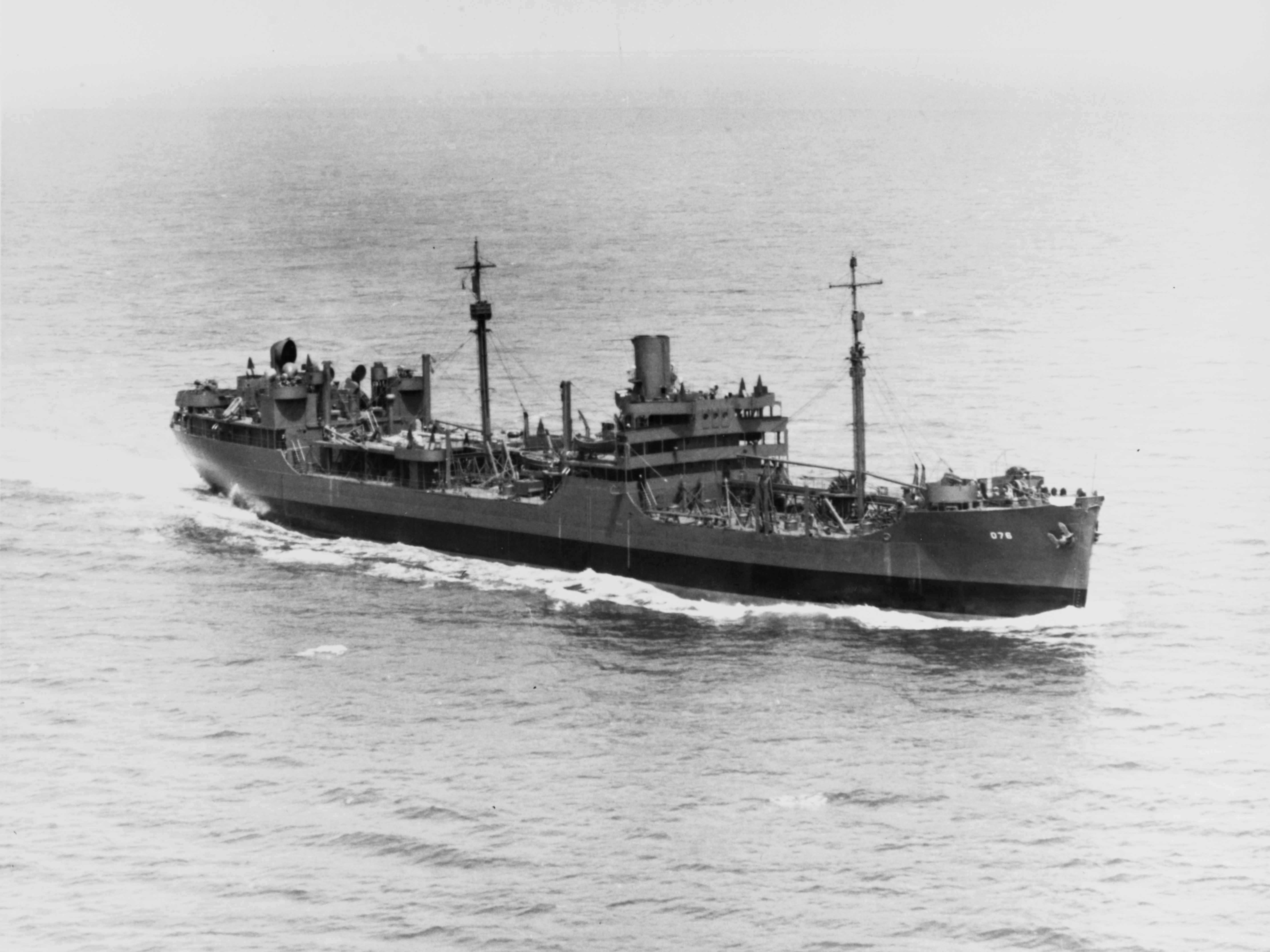 The U.S. Navy fleet oiler USS Schuylkill (AO-76) underway in Hampton Roads, Virginia (USA), 17 April 1943, following her conversion for naval service. She has been structurally camouflaged as a cargo ship, with a false stack amidships. Her real stack (aft) is disguised as a cowl vent.